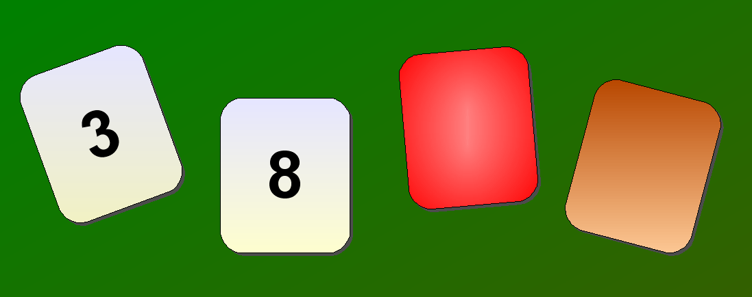 Wason selection task. Which card(s) must be turned over to show that if a card shows an even number on one face, then its opposite face is red?